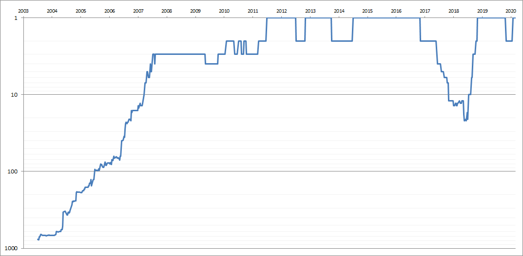 Novak Djokovic Singles Ranking History Overview Chart Note: official ATP table has an obvious error for data entry at the date '2012.07.02' (2nd July 2012) citing an erroneous rank of 0, which is not technically possible for an intermediate week between several continuous and consecutive weeks that precedes and follows it. Thus, to prevent a discontinuity in the chart I have manually entered an assumed ranking of '1'. When the data table gets a proper revision, chart will be corrected.